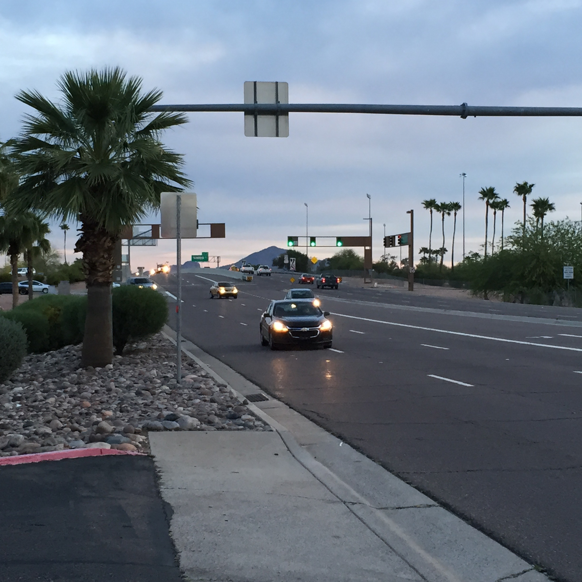 Southern terminus of Route 143.